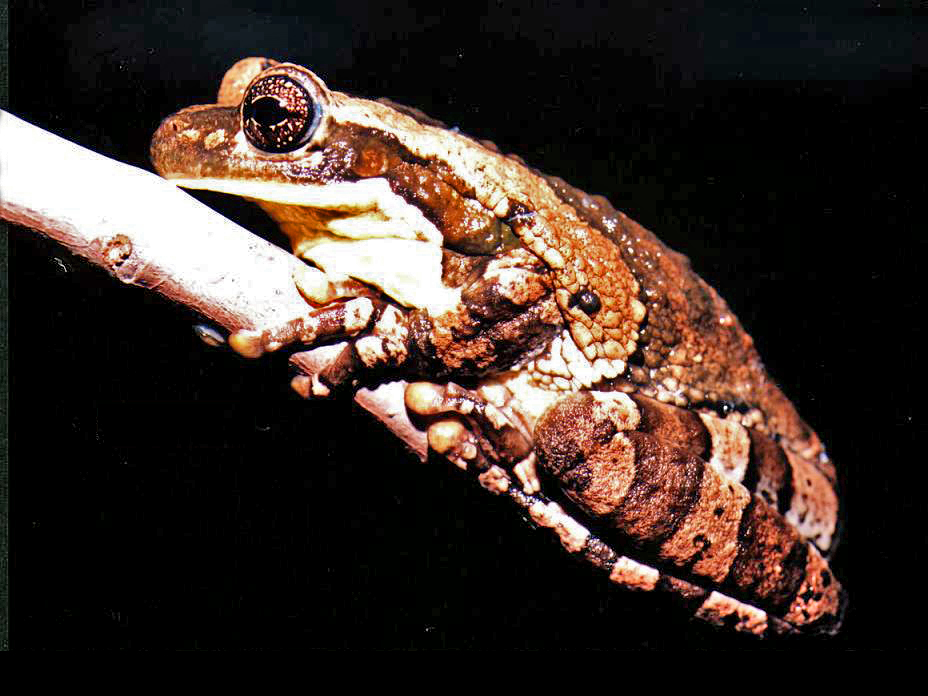 Trachycephalus venulosus